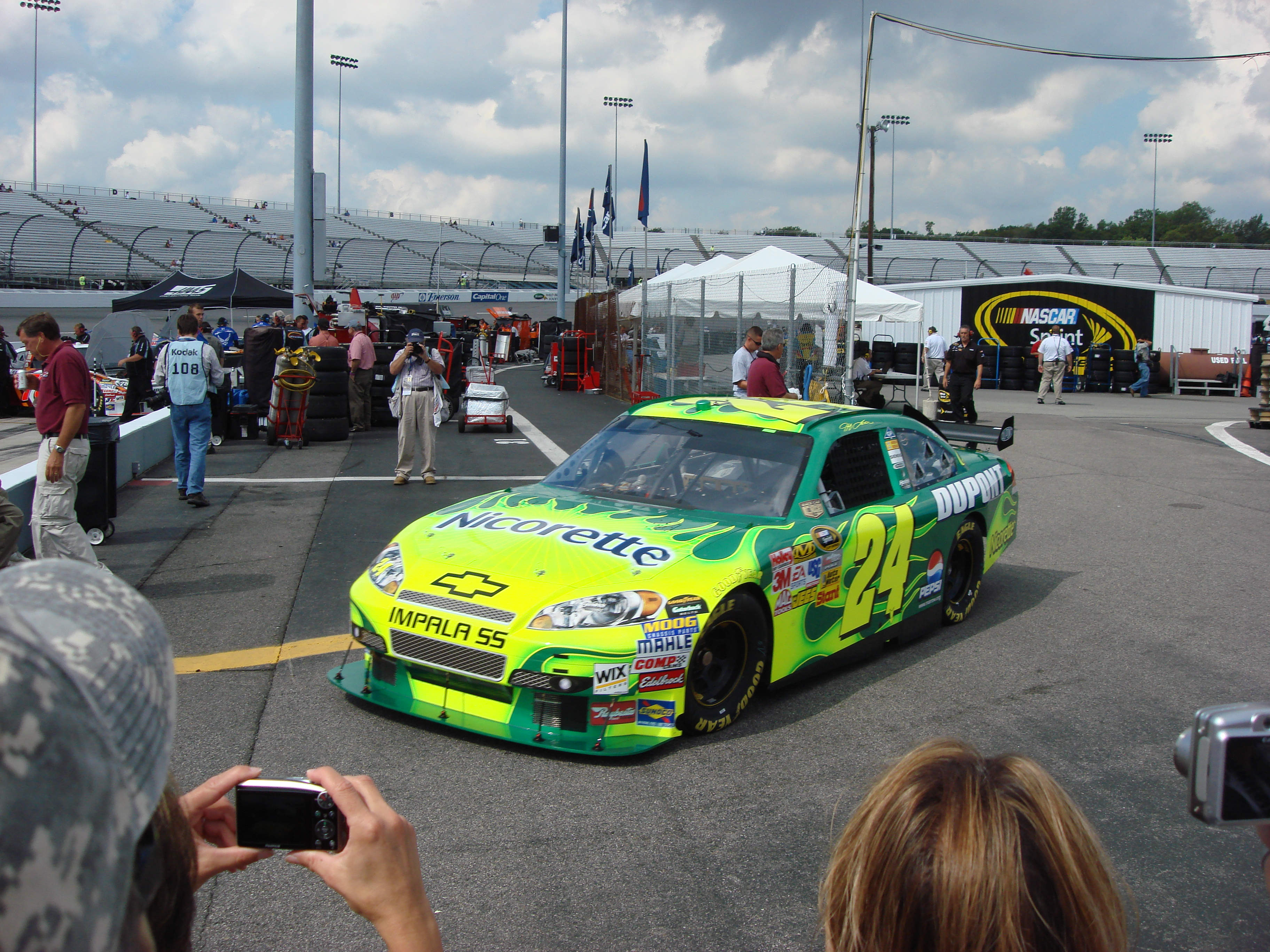 Jeff Gordon pulls onto the track for practice before the 2008 Chevy Rock and Roll 400 at Richmond International Raceway.